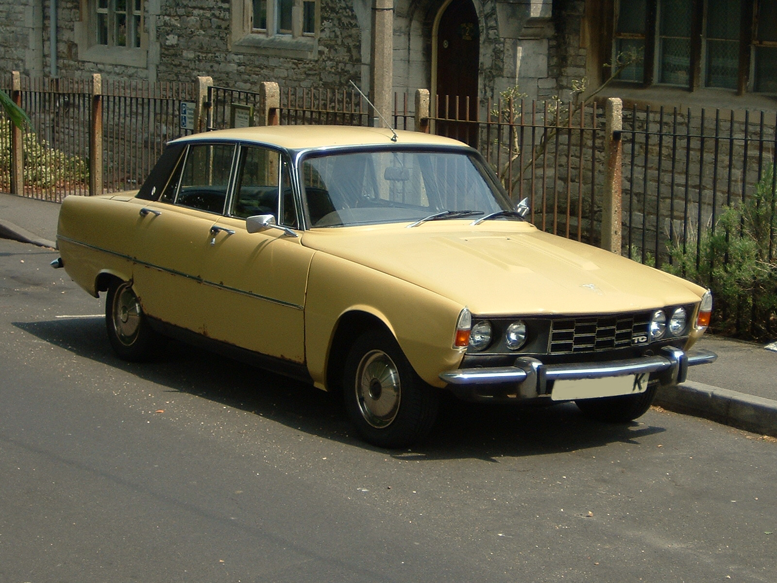 Rover P6, 2000 TC, 1971/72 registered photographed in Southampton in 2008 when the vehicle was 36 years old.